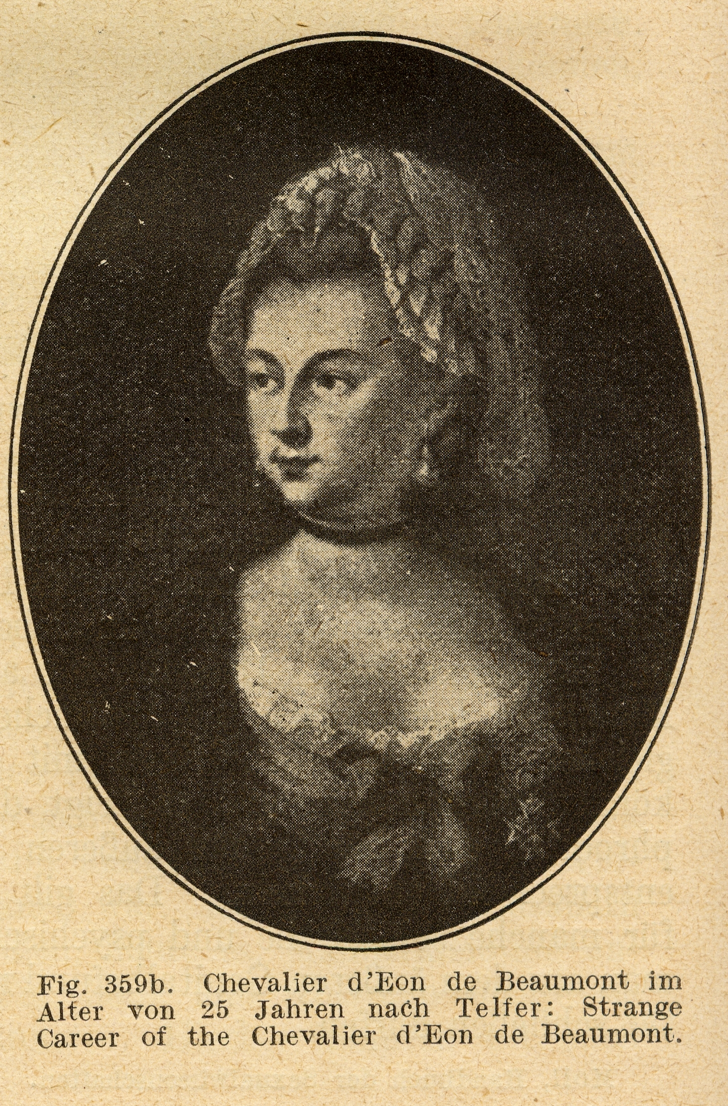 Chevalier d'Éon in female guise, from the book: Albert Moll, Handbuch der Sexualwissenschaften, Verlag Von F.C. Vogel, Leipzig 1921, p. 608.